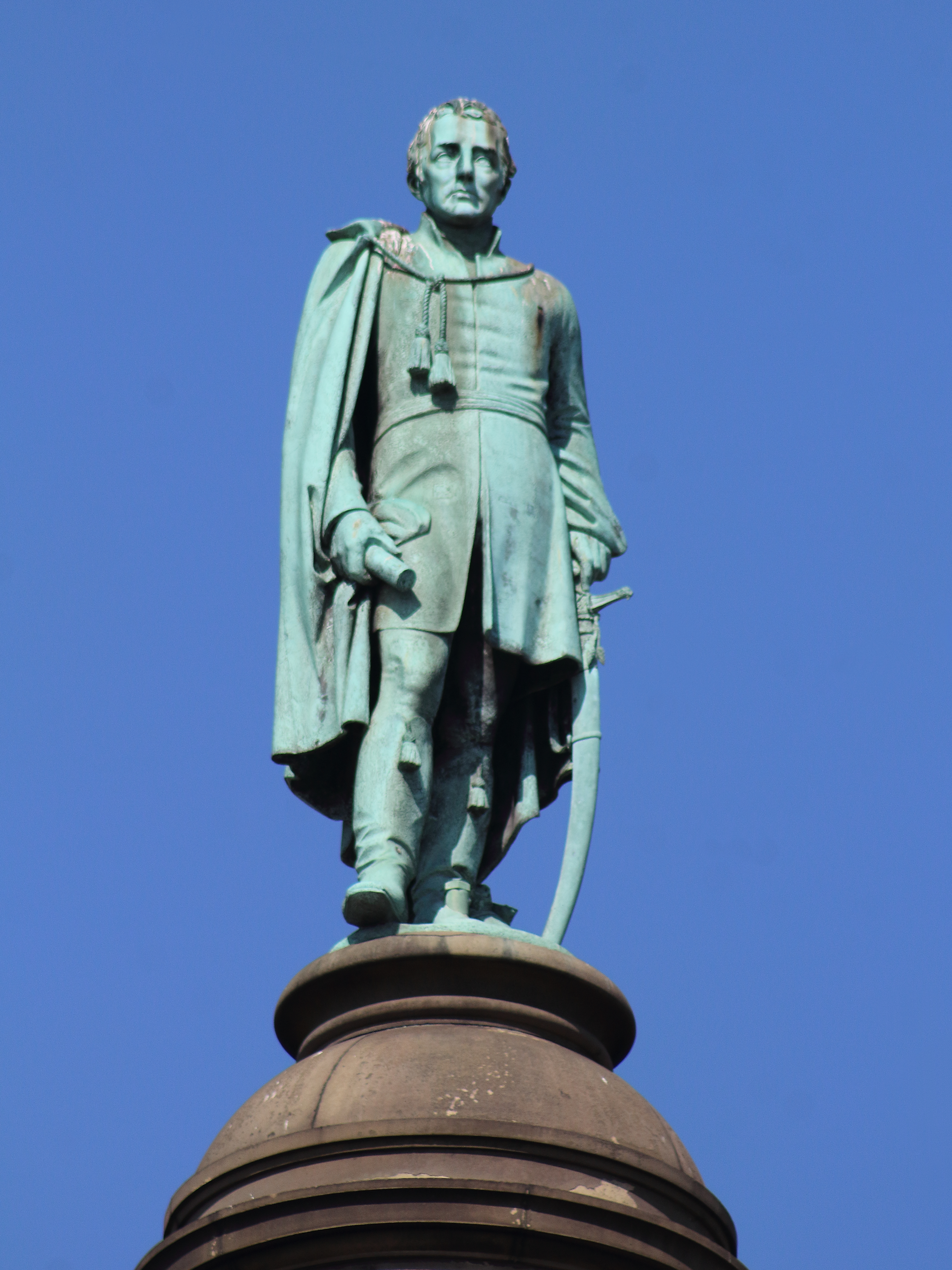 Statue of Wellington atop his column on William Brown Street, Liverpool.